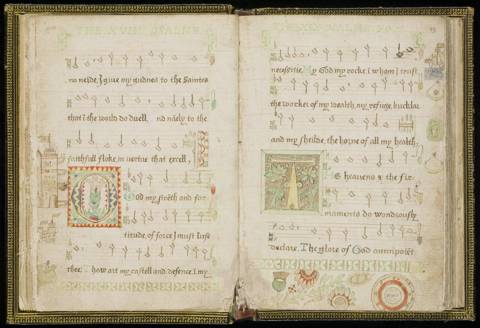 Full record available at: Shelfmark La.III.483.1 This image is available from the University of Edinburgh Image Collections This item is part of University of Edinburgh Image Collections, wmm~2~2~37289~102804View the image in Wikimedia's IIIF-compliant Mirador viewer which enables high resolution zooming.View the image in its original context in the University of Edinburgh Image Collections Catalogue This file was uploaded as part of a GLAMWiki partnership with the University of Edinburgh. This tag does not indicate the copyright status of the attached work. A normal copyright tag is still required. See Commons:Licensing. Left page Psalm 16 (paraphrase) - partial text of "Lord Keep me for I trust in thee": (...) no need I give my goods unto the saints That in the world do dwell And namely to the faithful flock In virtue that excel. Psalm 119 (paraphrase): O God, my Strength and Fortitude, Of force I must love thee; Thou art my Castle and Defense In my necessity; My God, my Rock, in whom I trust, The worker of my wealth, My Refuge, Buckler, and my Shield, The horn of all my health. Right page Psalm 19 (paraphrase, part): The heavens and the firmament do wondrously declare, The glory of God omnipotent (...)